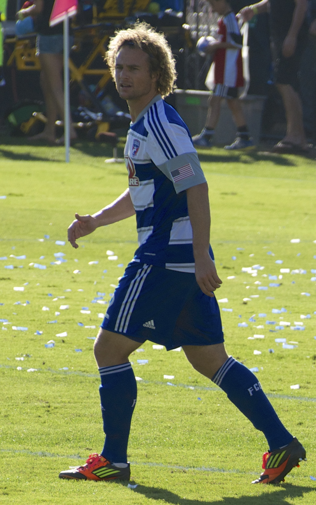 Stephen Keel, FC Dallas, Buck Shaw Stadium, 26 October 2013